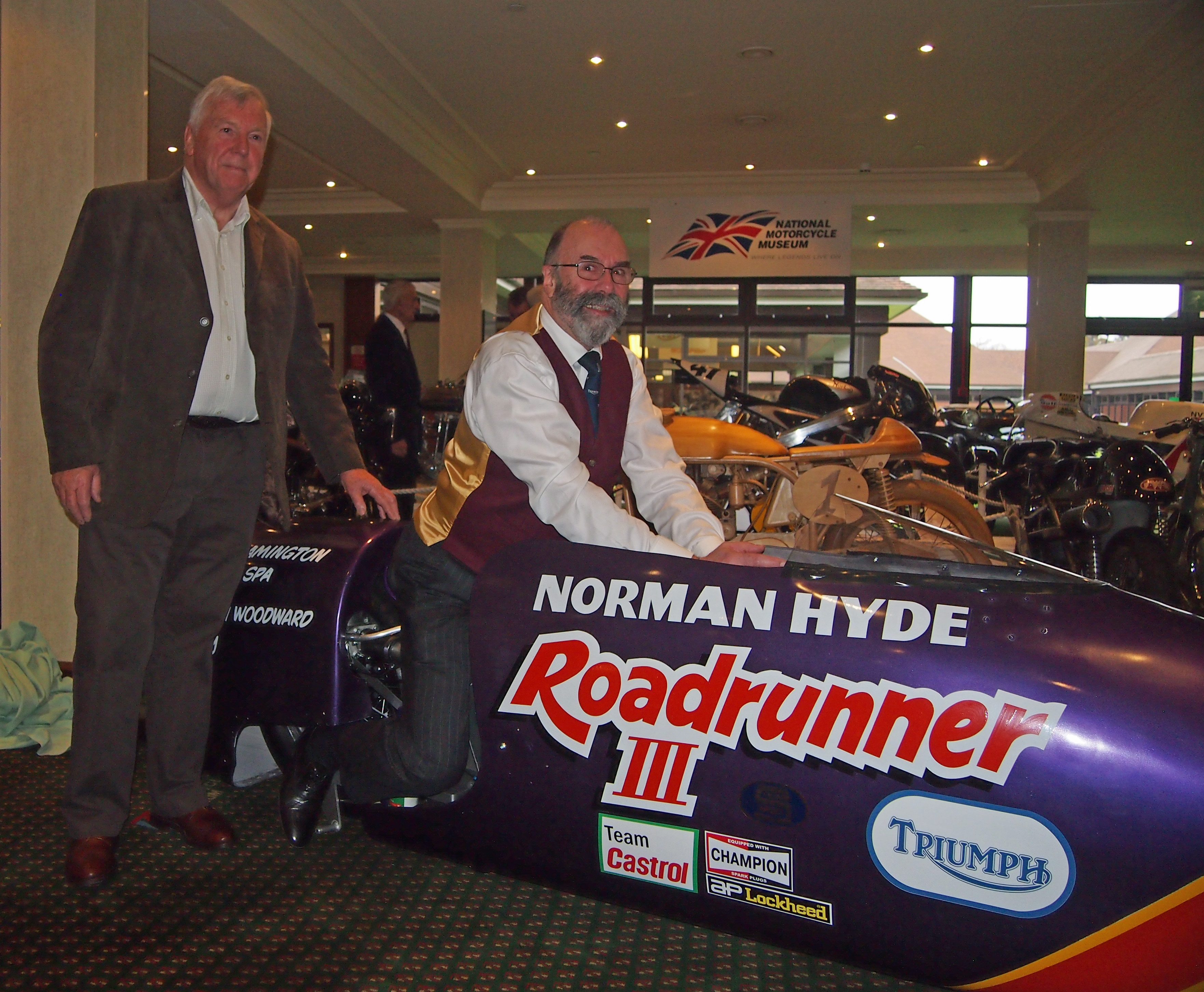 Norman Hyde sits astride his record-breaking Roadrunner 3 sidecar outfit, with restorer John Woodward standing